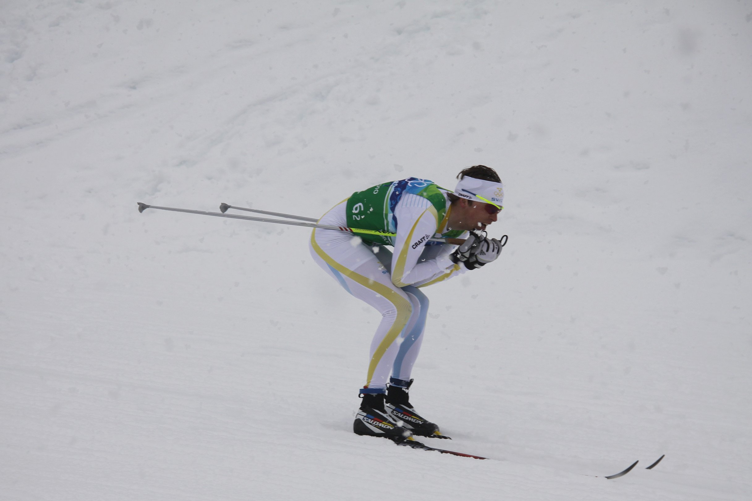 Johan Olsson of Sweden helps bring home the gold in the men's 4x10 KM cross-country skiing relay on February 24th, 2010